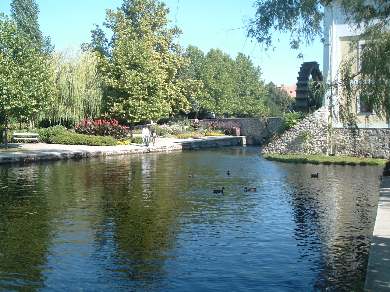 The Mill-lake in Tapolca